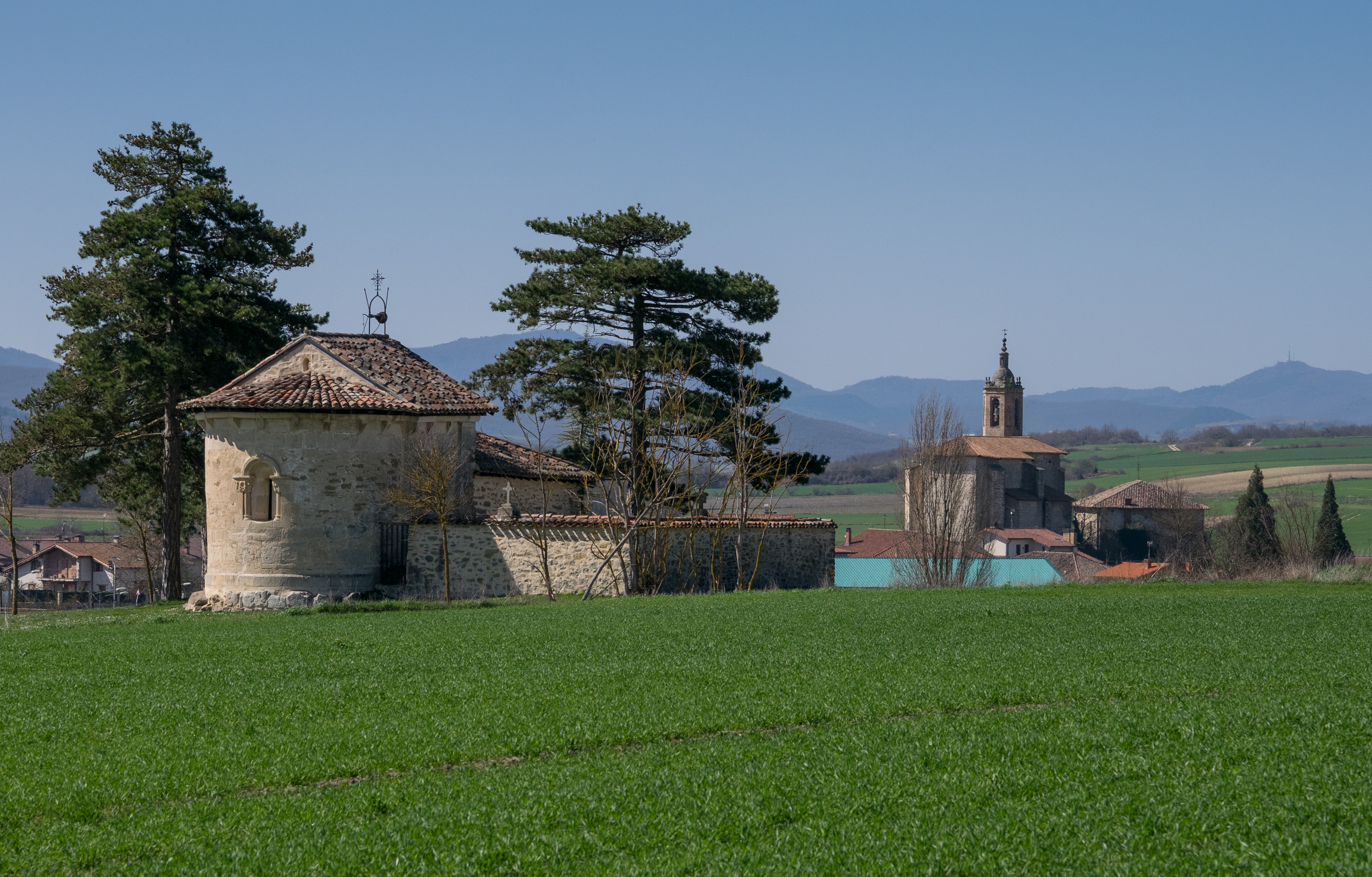 Chapel of San Juan de Arrarain. Elburgo, Álava, Basque Country, Spain